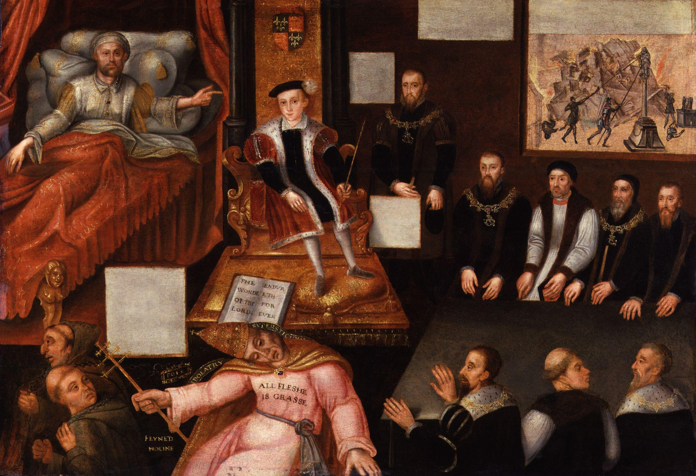 King Edward VI and the Pope, by unknown artist. All images in this batch are listed as "unknown author" by the NPG, who is diligent in researching authors, and was bought by them in 1960 according to the link below. There is a book about this painting: Margaret Aston's The King's Bedpost (1994). The author reports (p. 208) that "Edward VI. and his Council" first appeared in Christie's sale of 20 March 1874. It belonged to Thomas Green, Esq., of Ipswitch and Upper Wimpole Street (Thomas Green III). In 1856 the Suffolk Chronicle described the colletion to which the painting belonged as "by far the most valuable collection of paintings in Ipswitch". In 1830 the collection was in Brook Street, Ipswitch. Sarah An Birkett (since long in the service of the Green family and Thomas Green III's sometime nurse) took care of the collection. In 1843 it moved to another location. Margaret Aston: "What happened to is between then and the sale of 1874 is obscure." As John Everett Millais alluded to the painting before 1850 in his Carpenter's Shop and Henry Holiday alluded to it before 1876 in an illustration to Lewis Carroll's The Hunting of the Snark, both artists must have known that painting well (